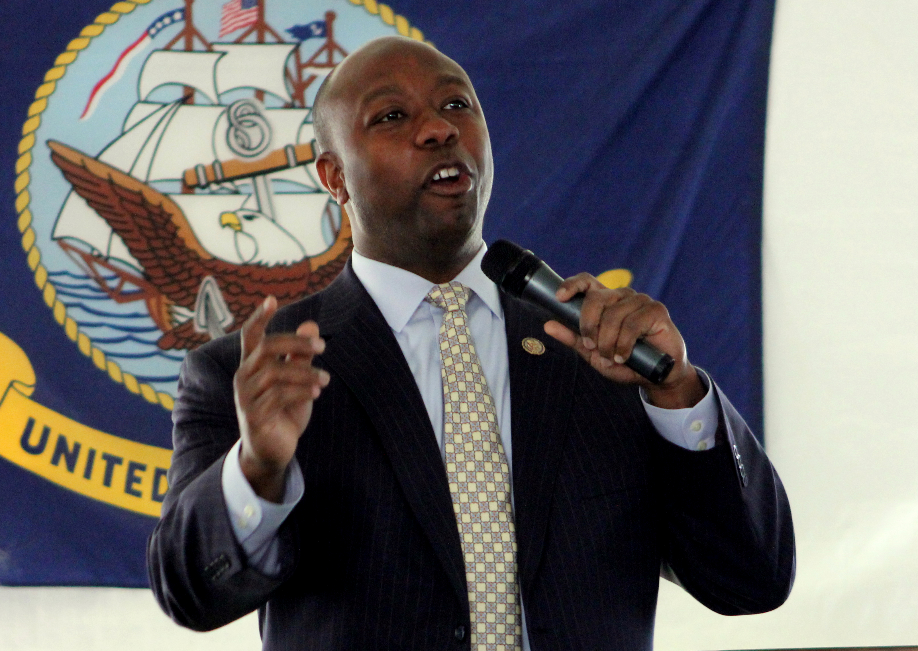 The City of North Charleston hosted its annual Veterans Day tribute on Friday, November 11, 2011 from at Park Circle with keynote speaker Colonel Frank S. Taylor. Over 500 veterans in attendance were honored. The Department of Defense and the National Committee for Veterans Day selected North Charleston as a Regional Site for Veterans Day 2011. North Charleston is the only regional site in the State of South Carolina.